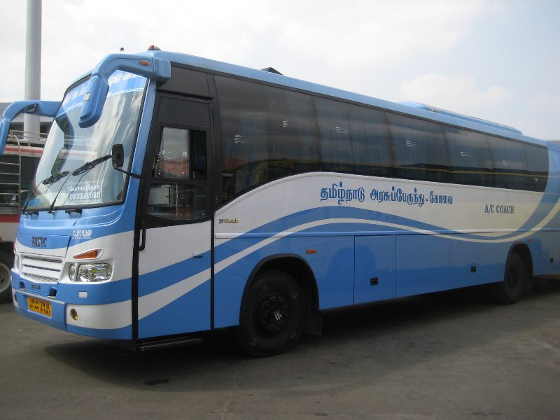 A bus in the Tamil Nadu State Transport Corporation fleet, in the TNSTC colours. This model is a "Proton Series" bus made by Prakash Body Constructions.